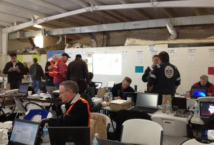 Mayflower oil spill - Unified Command